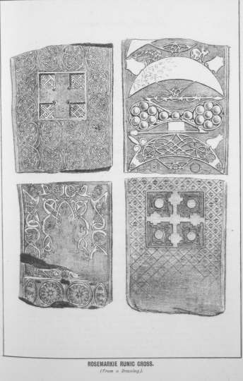 The copyright of the image has expired. It was taken via the Am Baile website, but comes from Angus J Beaton's Illustrated Guide to Fortrose and Vicinity, with an appendix on the Antiquities of the Black Isle, published in Inverness in 1885